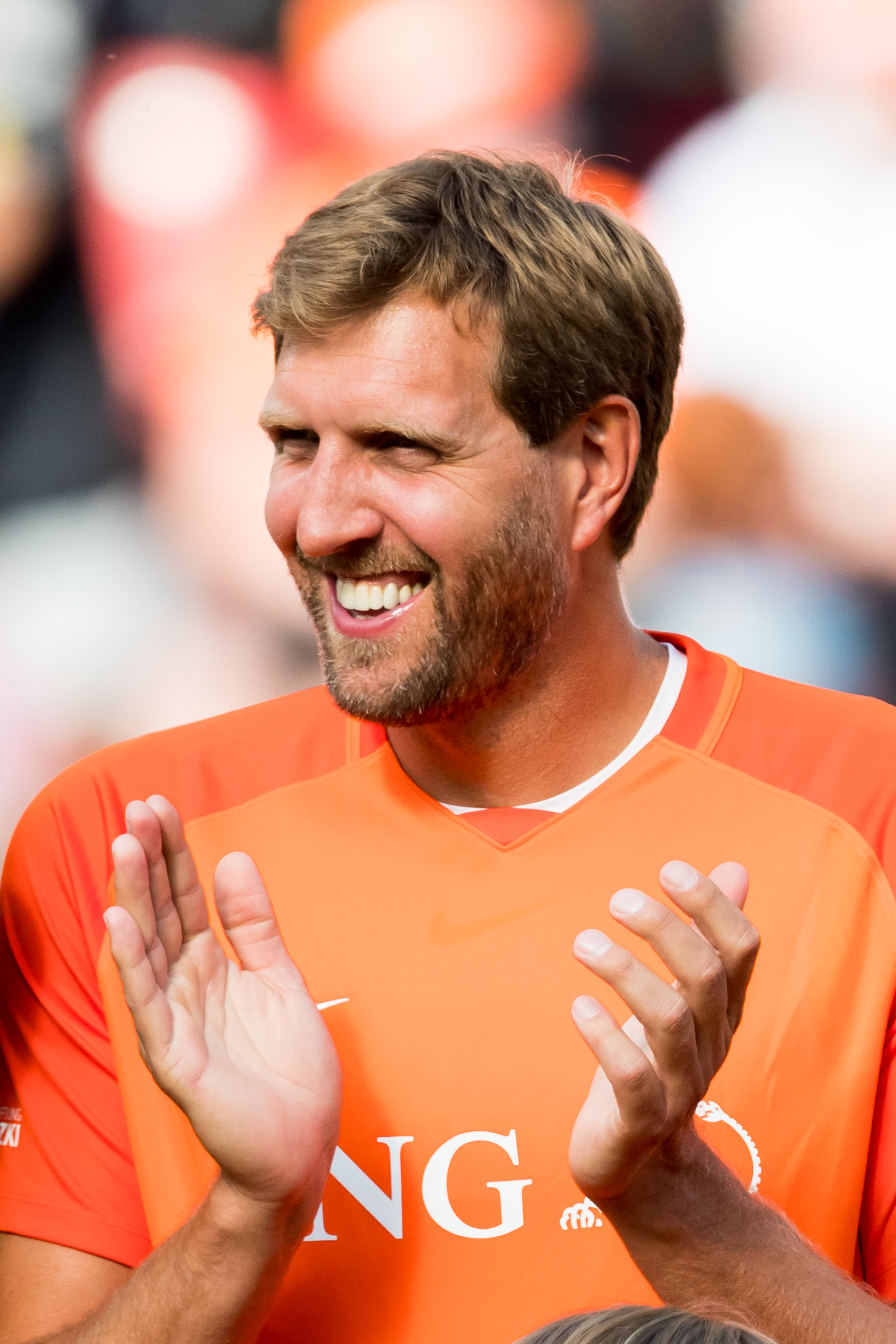 Dirk Nowitzki during Champions for Charity at BayArena, Leverkusen, Nordrhein-Westfalen, Germany on 2019-07-21, Photo: Sven Mandel